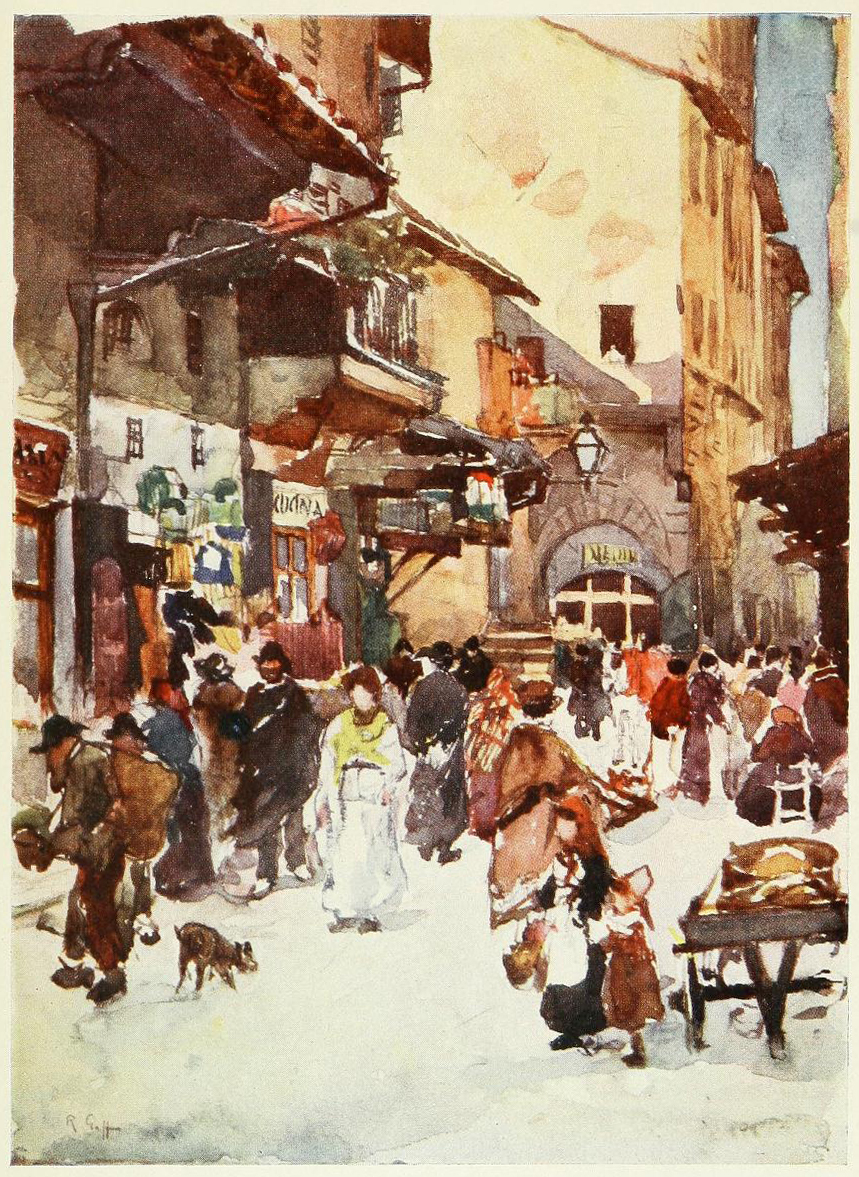 Study in the mercato vecchio in the year 1884, before the destruction of the ghetto. Watercolour, reproduced in Clarissa Goff, Florence & some Tuscan cities Painted by Colonel R. C. Goff · Described by Clarissa Goff, (London: A. & C. Black, 1905), pl. 27 facing p. 106.